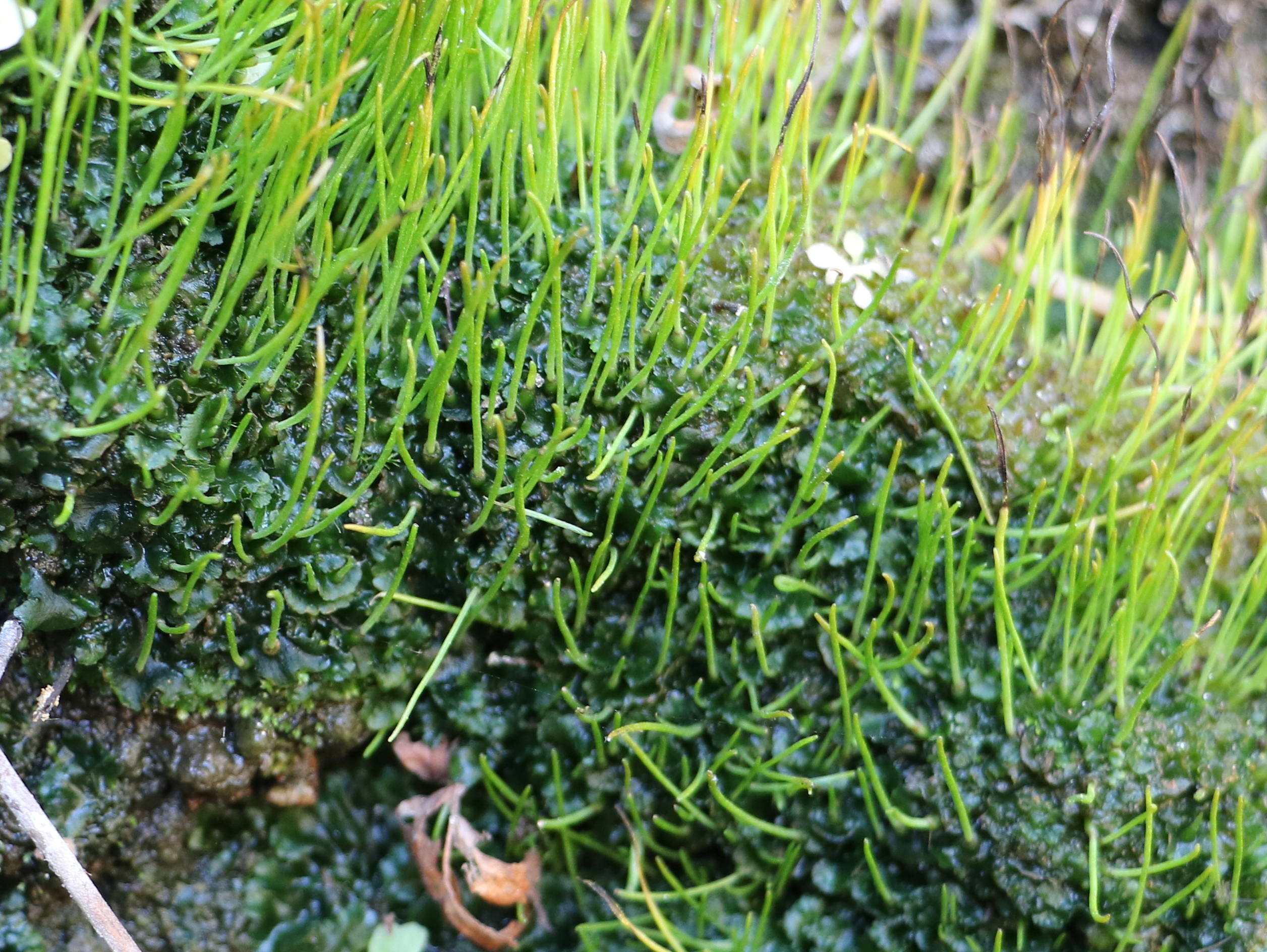 probably Phaeoceros carolinianus, a hornwort, growing on a rocky wall, perpetually moist site. Waverton, NSW, Australia near Berrys Bay